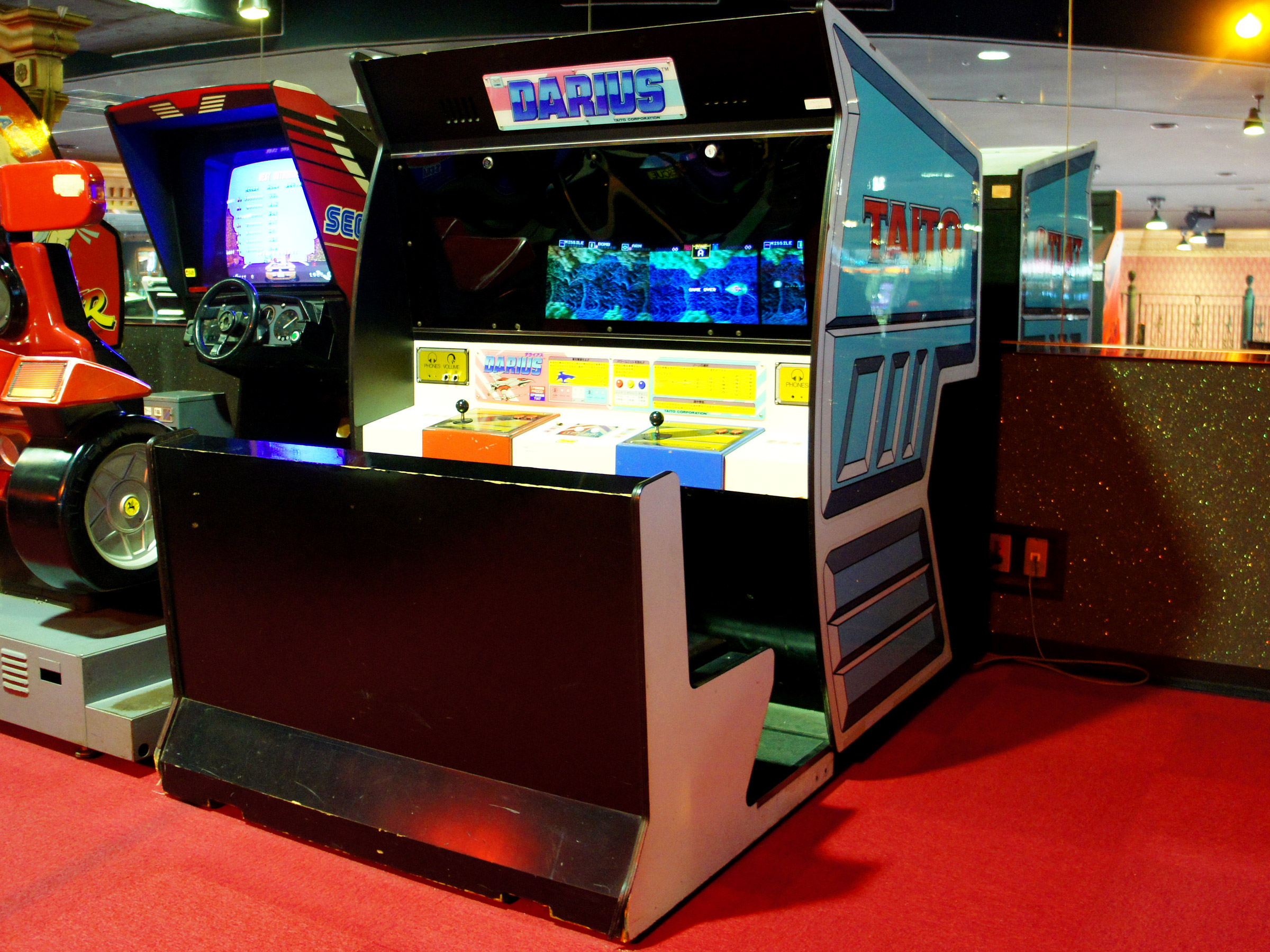 TAITO's Darius.It has three screens.